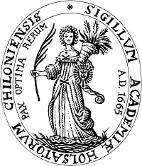 Seal of the University of Kiel, Germany